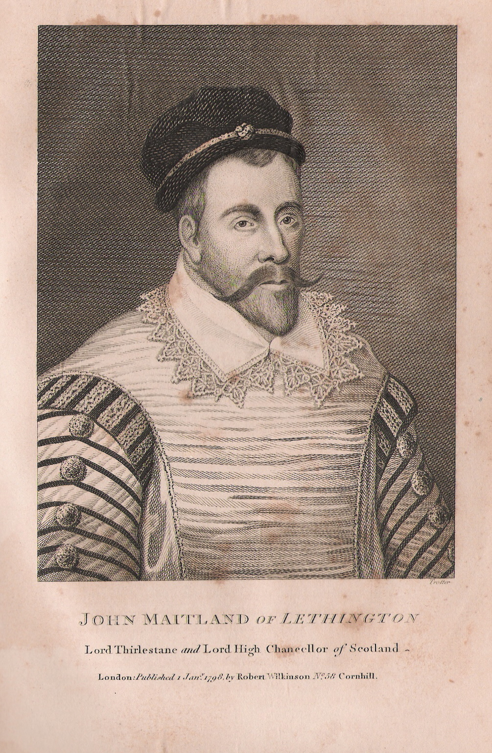 Scan of an engraving in An Historical Account of the Senators of the College of Justice, Edinburgh, 1849, a book now out of copyright. David Lauder 10:56, 14 February 2007 (UTC)